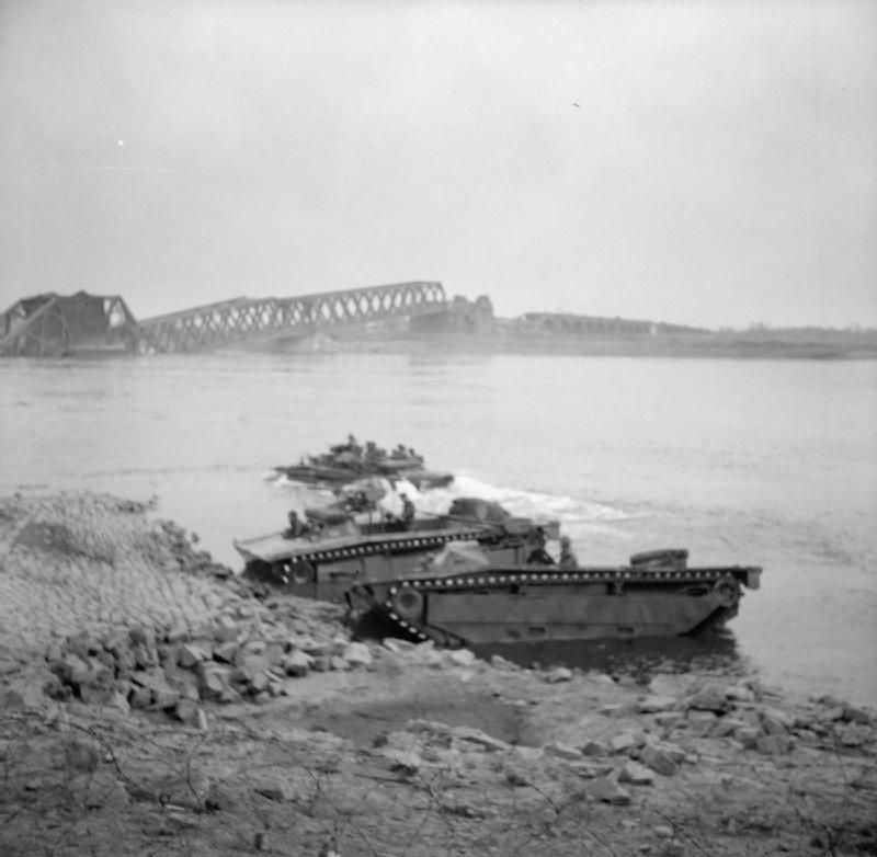 The British Army in North-west Europe 1944-45- Assault on the Rhine and Capture of Wesel This is one of a collection of pictures that show the landing from Buffaloes of the 1st Battalion Cheshire Regiment, who landed on the afternoon of 24th March 1945, in support of No.1 S.S Commando Brigade at Wesel. The bridge seen in background is the smashed railway bridge at Wesel.